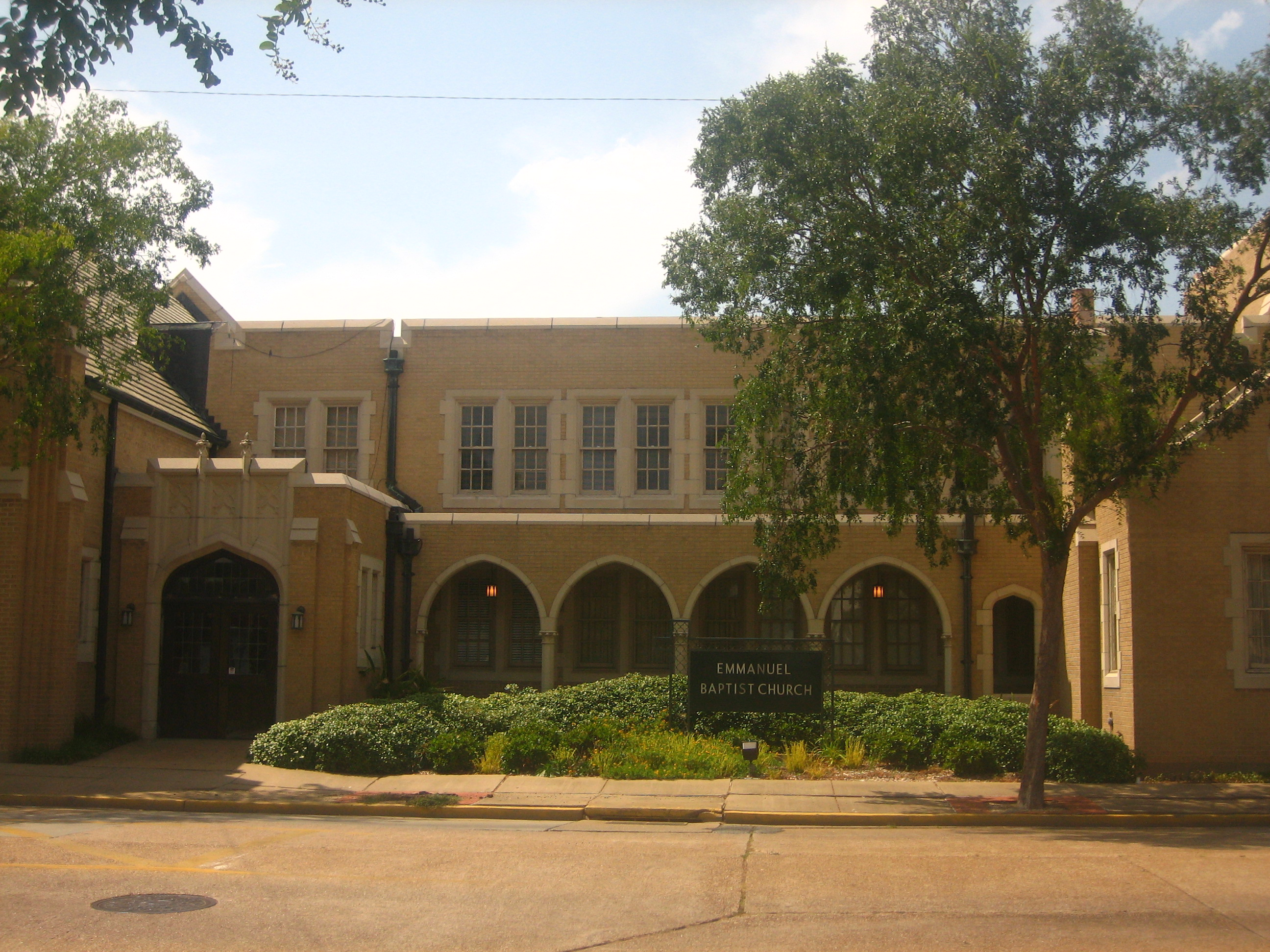 Alexandria, Louisiana. Emmanuel Baptist Church. I took photo on Aug. 1, 2008.Billy Hathorn (talk) 12:05, 19 August 2008 (UTC)